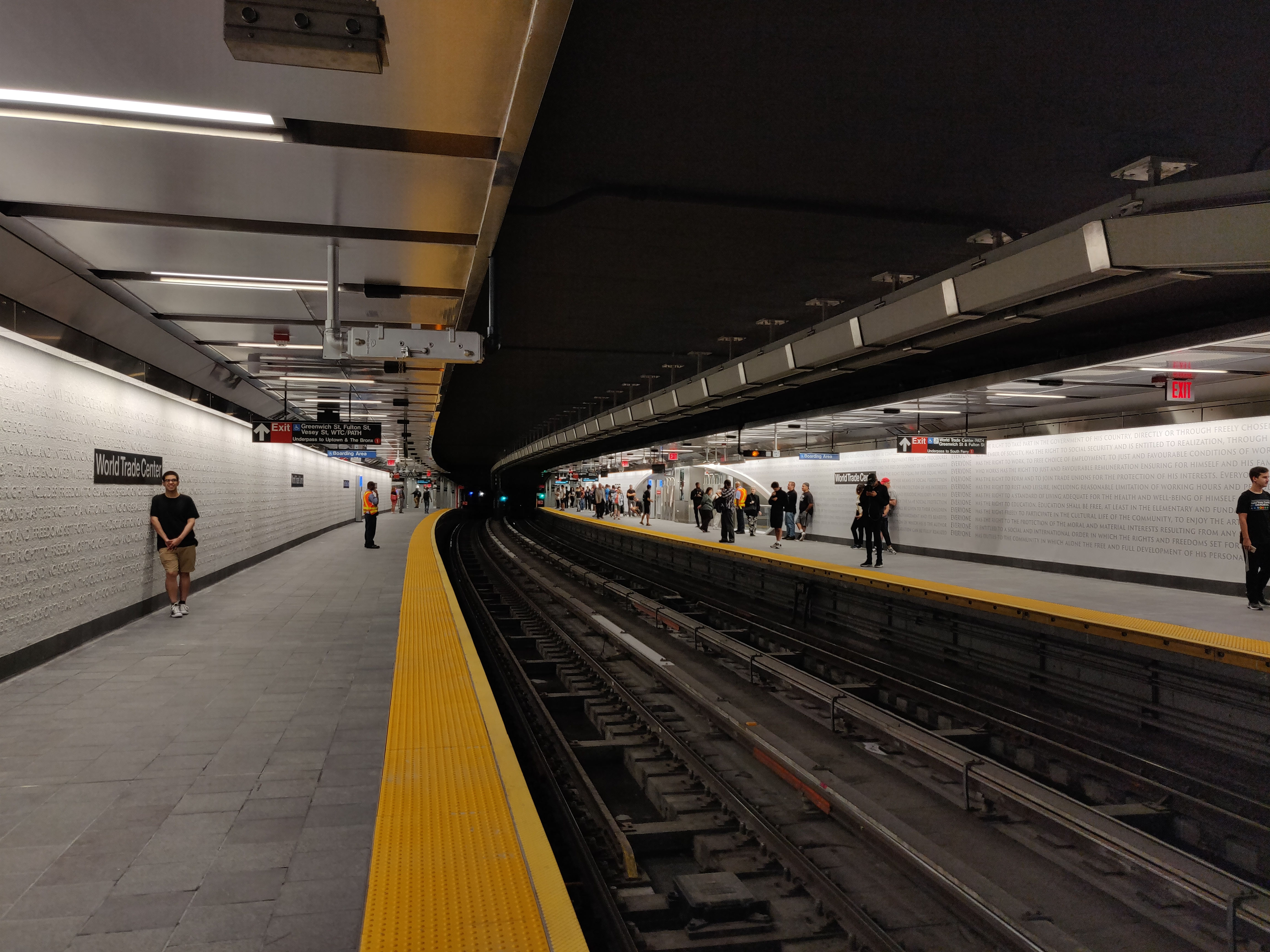 Re-Opening Day of both platforms of the "WTC Cortlandt" NYC Subway Station in Downtown Manhattan, facing north.